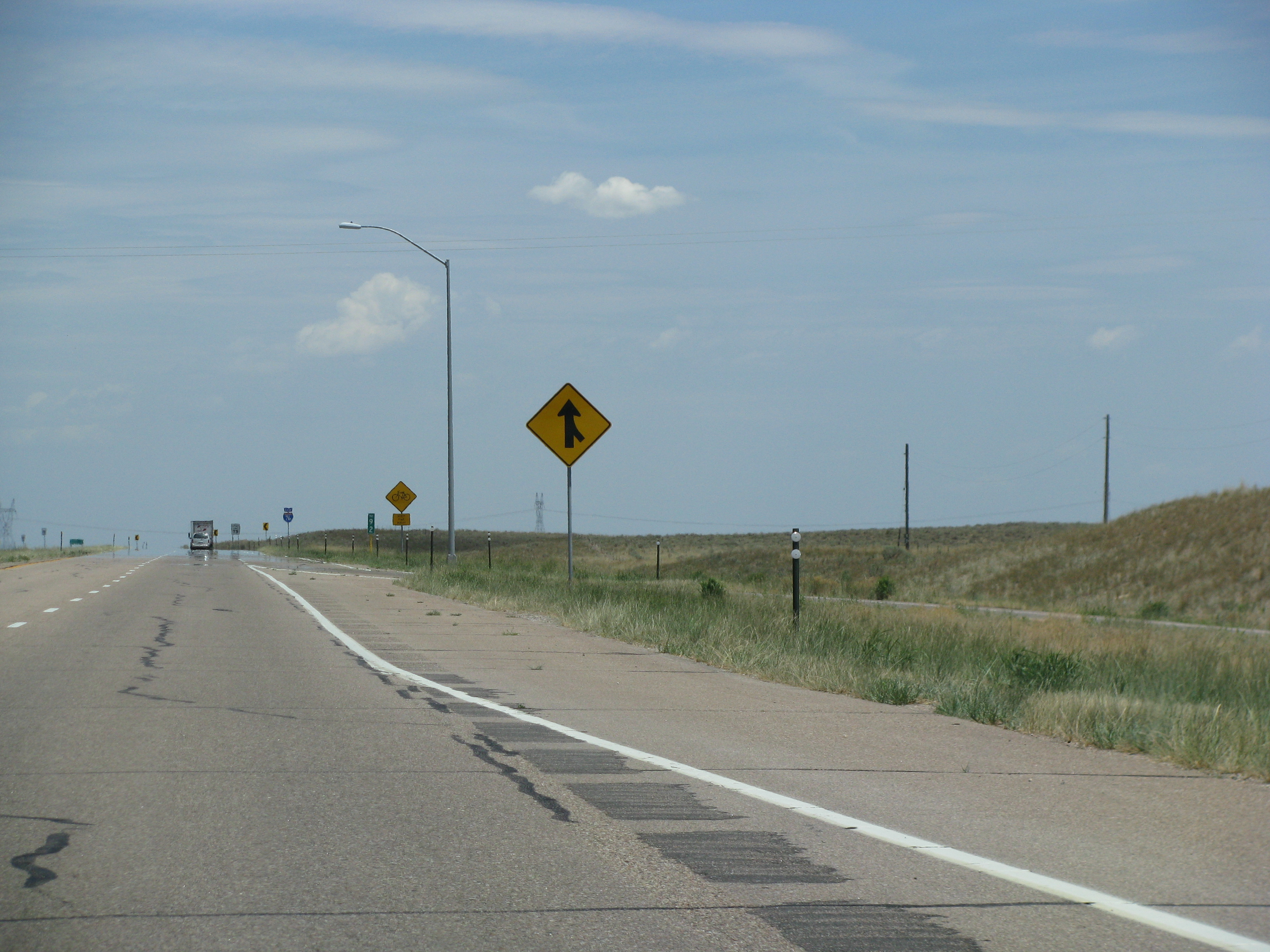 Interstate 76 eastbound at mile marker 92, Brush, Colorado.